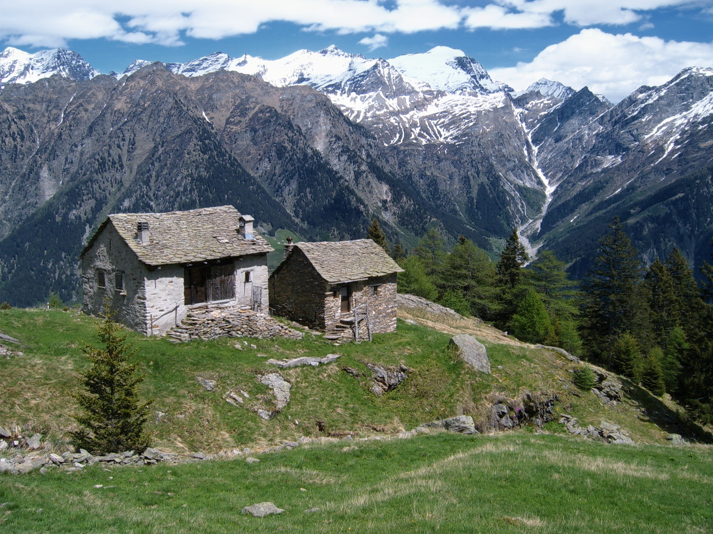 Rustici in Valle di Blenio, Ticino (Switzerland) and the massif of the Rheinwaldhorn.